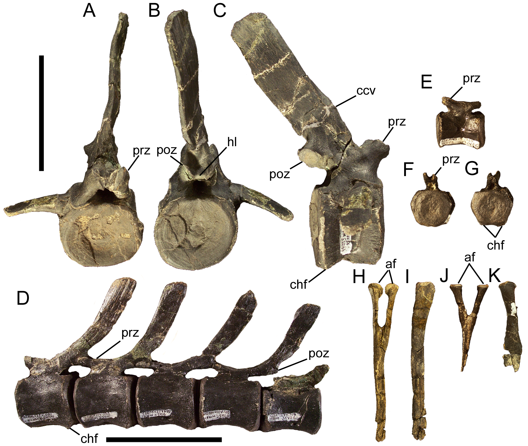 Caudal vertebrae and chevrons of Eolambia. Proximal caudal vertebra CEUM 52066 (WS8) in (A) cranial, (B) caudal, and (C) right lateral views. Articulated middle caudal vertebrae (CEUM 35414, 35415, 35416, 35425, and 35426; Eo2) in (D) left lateral view. Distal caudal vertebra CEUM 35486 (Eo2) in (E) left lateral, (F) cranial, and (G) caudal views. Proximal chevron CEUM 14457 (Eo2) in (H) cranial and (I) left lateral views. Distal chevron CEUM 34322 (Eo2) in (J) cranial and (K) left lateral views. Abbreviations: af, articulation facet; ccv, cranial convexity; chf, chevron facet; hl, horizontal lamina between postzygapophyses; poz, postzygapophysis; prz, prezygapophysis. Scale bars equal 10 cm.